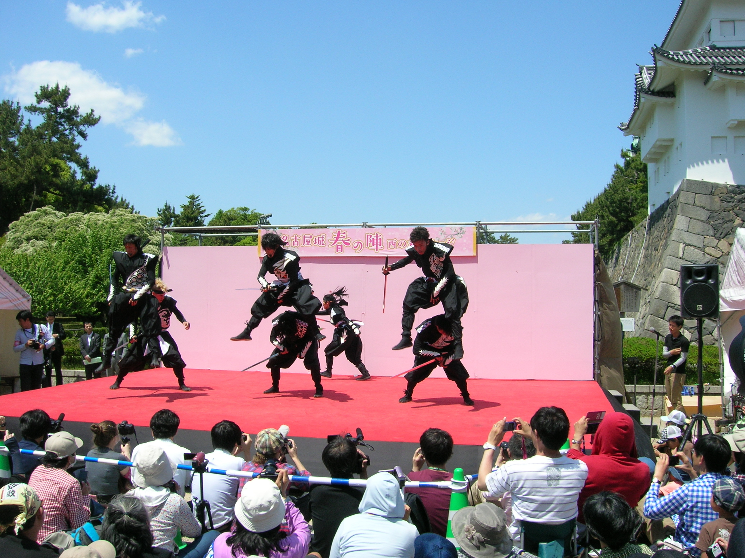 Performance of Hattori Hanzō and the Ninjas. Loc: Nagoya castle, Nagoya city, Aichi Prefecture, Japan. 徳川家康と服部半蔵忍者隊による演舞 撮影場所 愛知県名古屋市・名古屋城